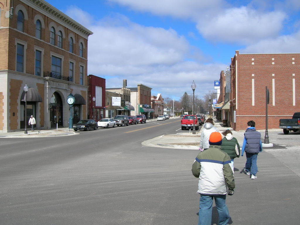 Downtown Three Oaks, Michigan